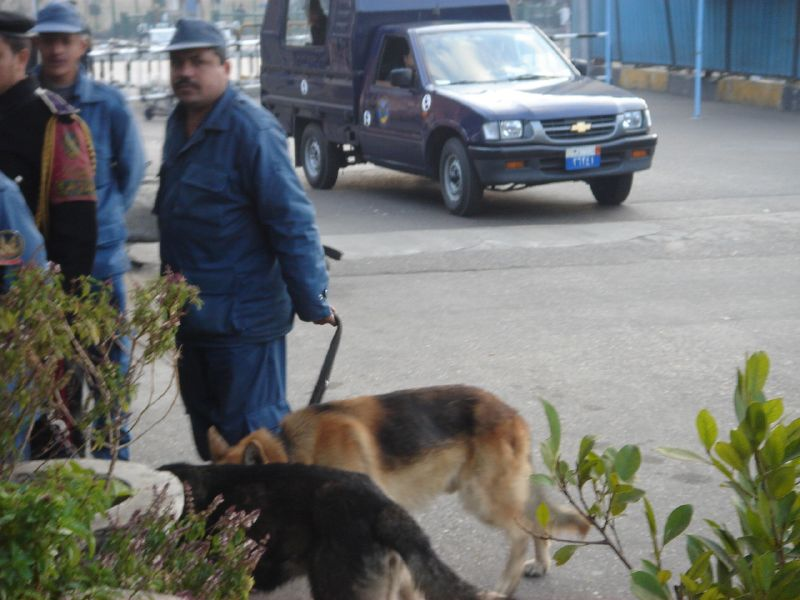 outside the Egyptian Museum